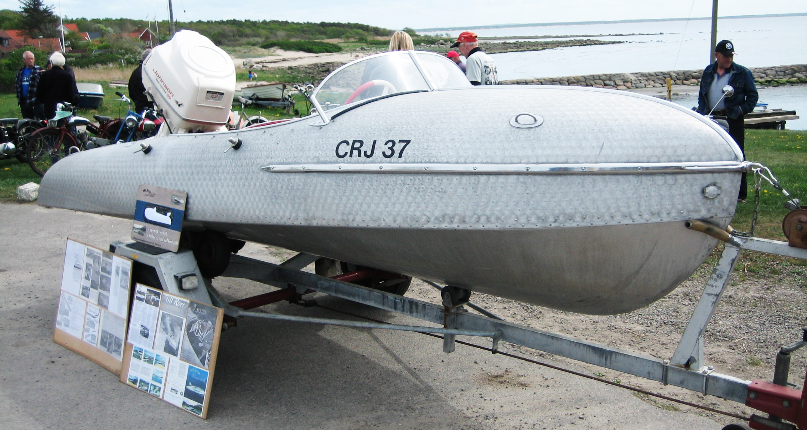 Swedish Marco racerboat/motorboat, made in Ängelholm, Sweden in the late 1940'ies. Photo by the uploader in Magnarpsstrand, Sweden.